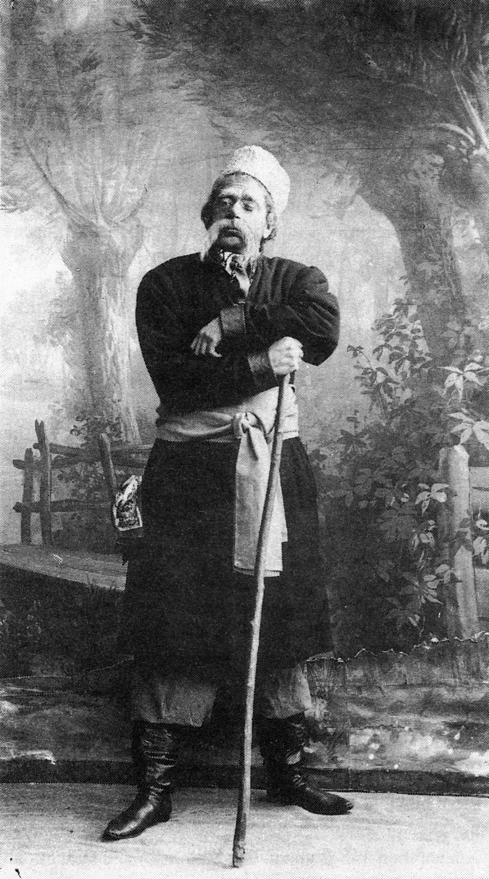 Rimsky-Korsakov - May Night - Fyodor Stravinsky as Mayor